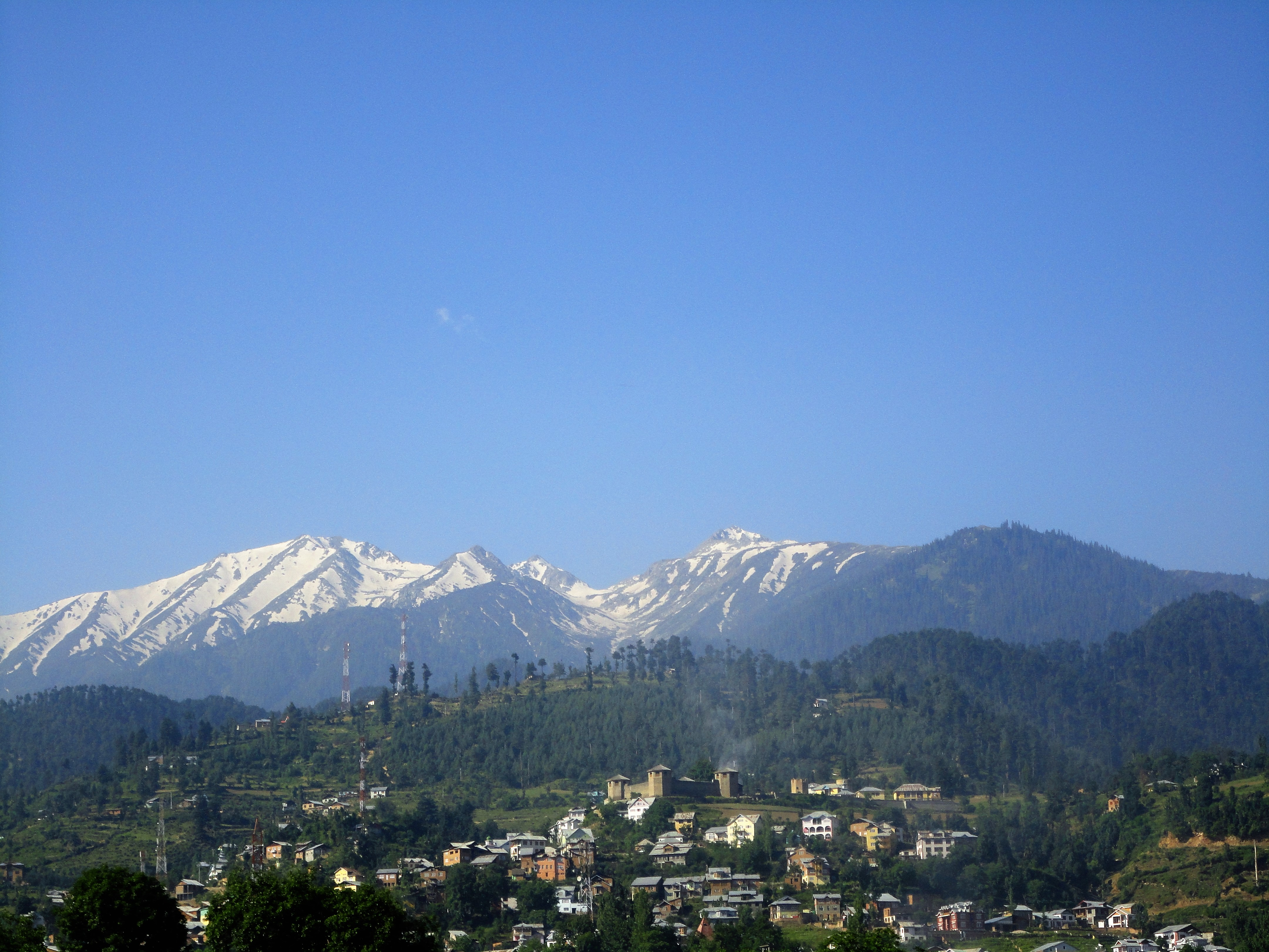 Bhadarwah - A town in Doda district of Jammu division in Jammu & Kashmir